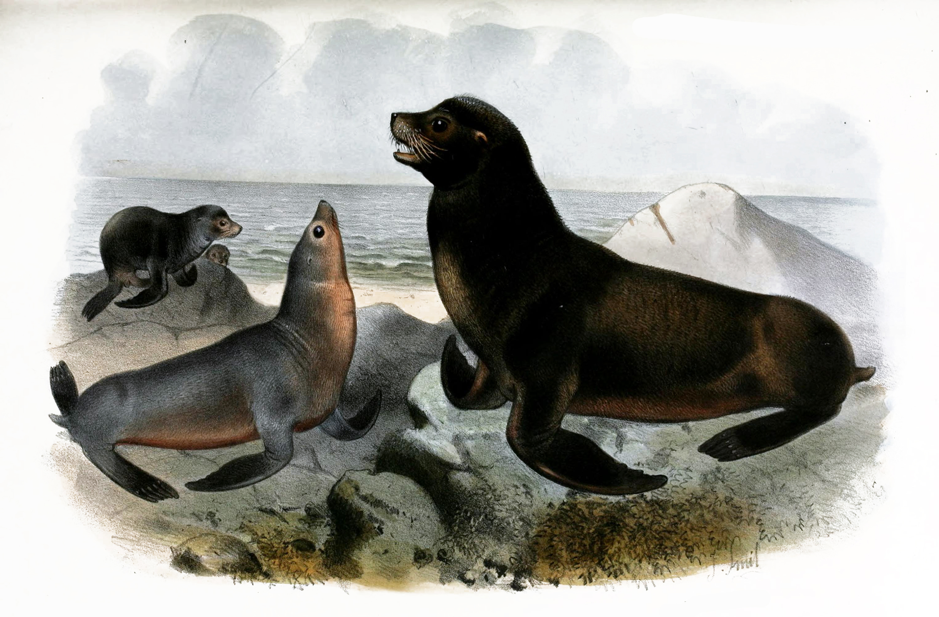 Zalophus californianus